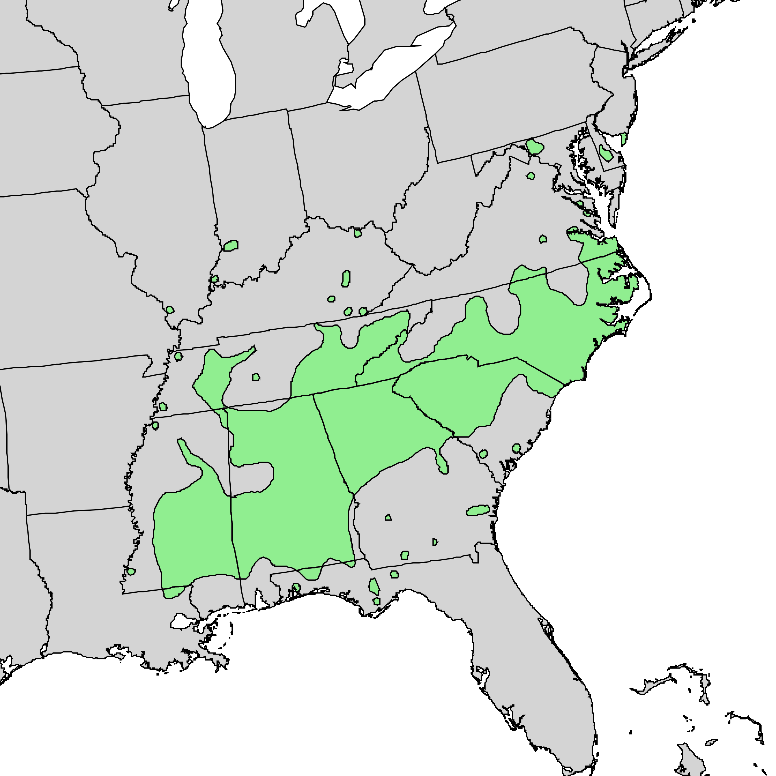 Natural distribution map for Carya pallida